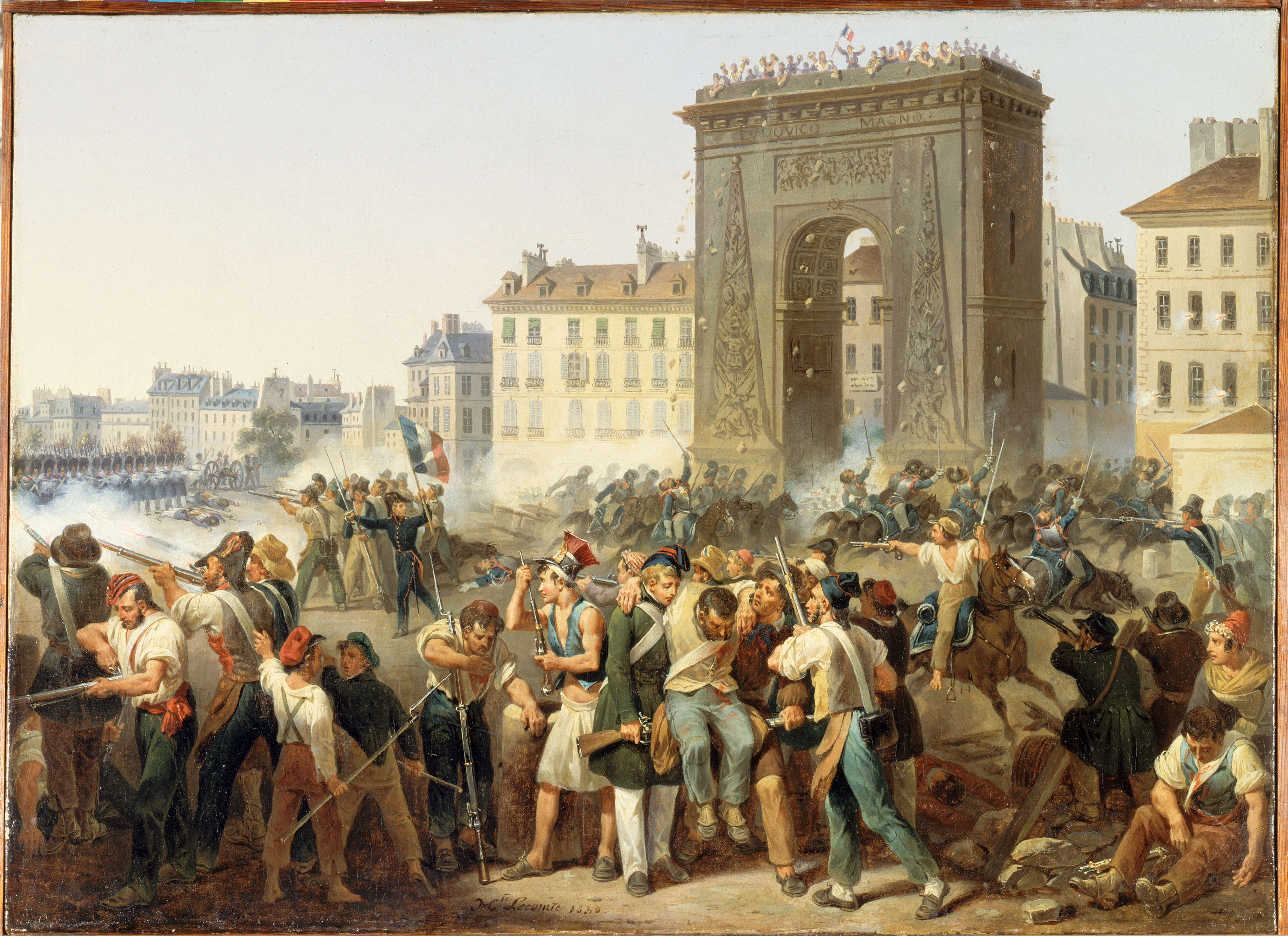 French Revolution of 1830 - 28.07.1830